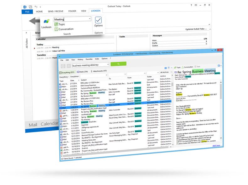 Lookeen might be integrated into Microsoft Outlook as a add-on, but works as stand-alone Desktop Search tool as well.